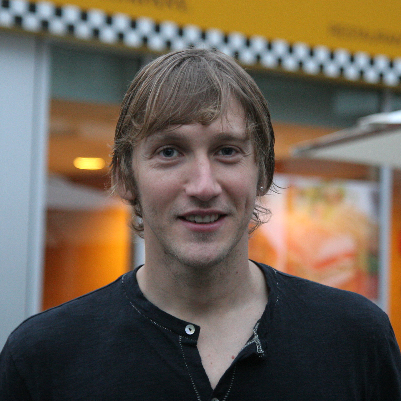 Venio Losert, Croatian handball player (goalkeeper) on October 12th, 2008 in Barcelona (Palau Blaugrana) after the Champions League game FC Barcelona Borges - H.C. Metalurg Skopje